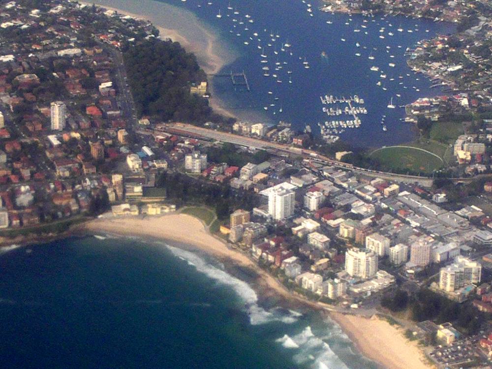 Cronulla, New South Wales, beachside suburb in Sydney, south of Botany Bay. North is in the bottom right corner of this photo taken from approx 1340 metres (4400 feet).